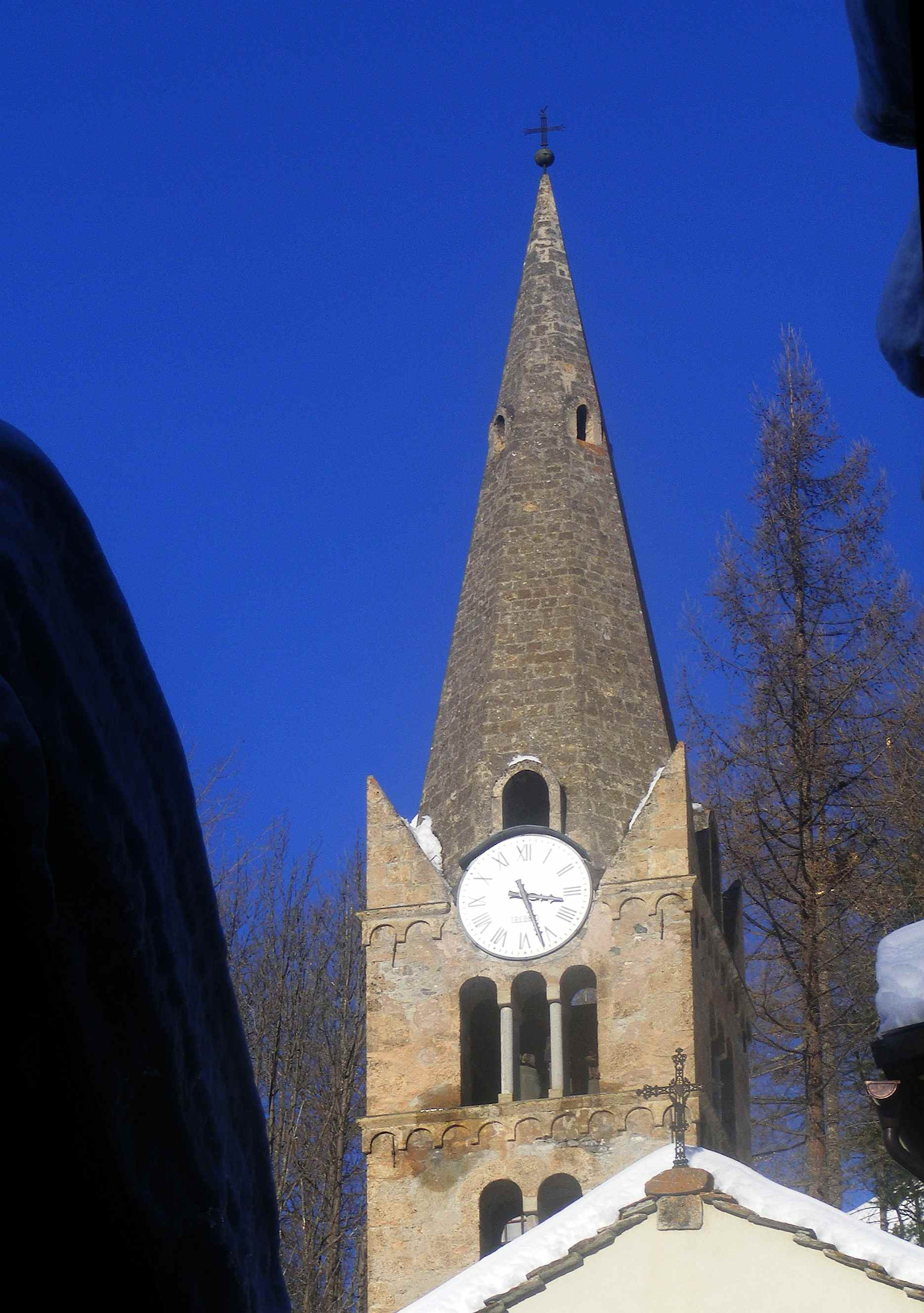 Bousson (Cesana Torinese, TO, Italy): Madonna della Neve church tower